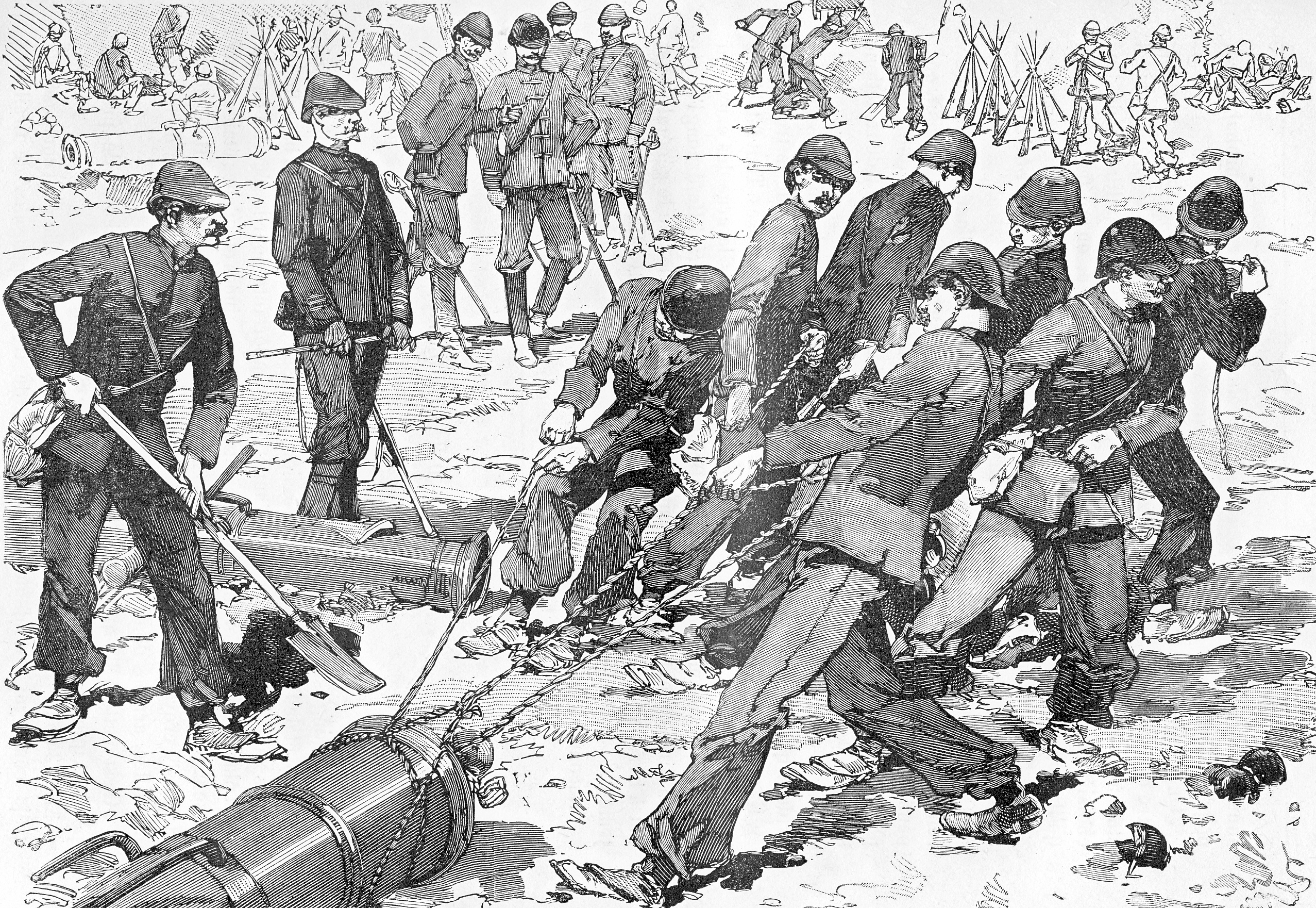 Colonel Bichot recovers abandoned Black Flag cannon at Quatre Colonnes after the Battle of Phu Hoai, 16 August 1883